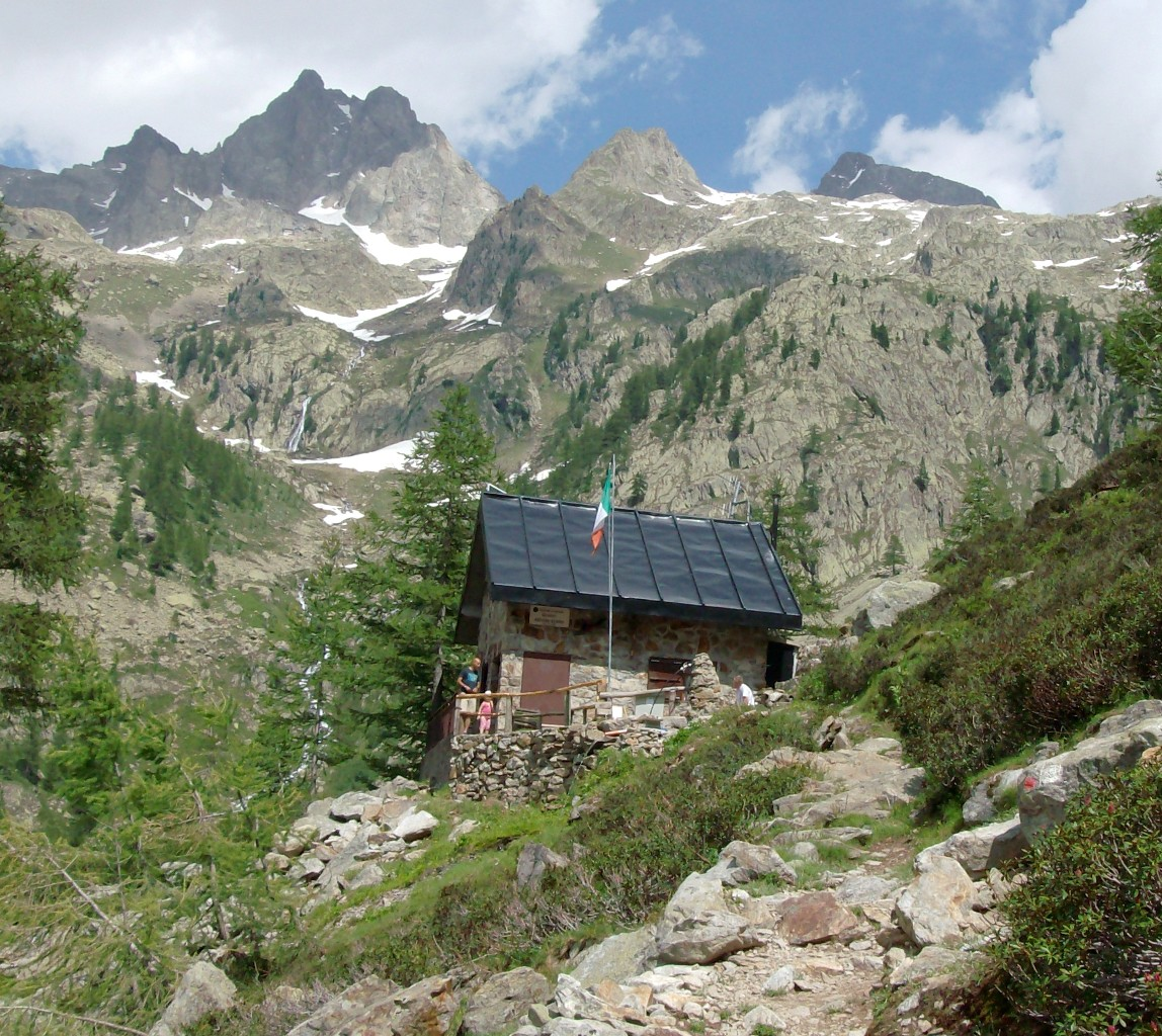 Rifugio Regina Elena in the upper Gesso Valley (Cuneo-CN), in the Parco naturale delle Alpi Marittime, Piedmont, Italy